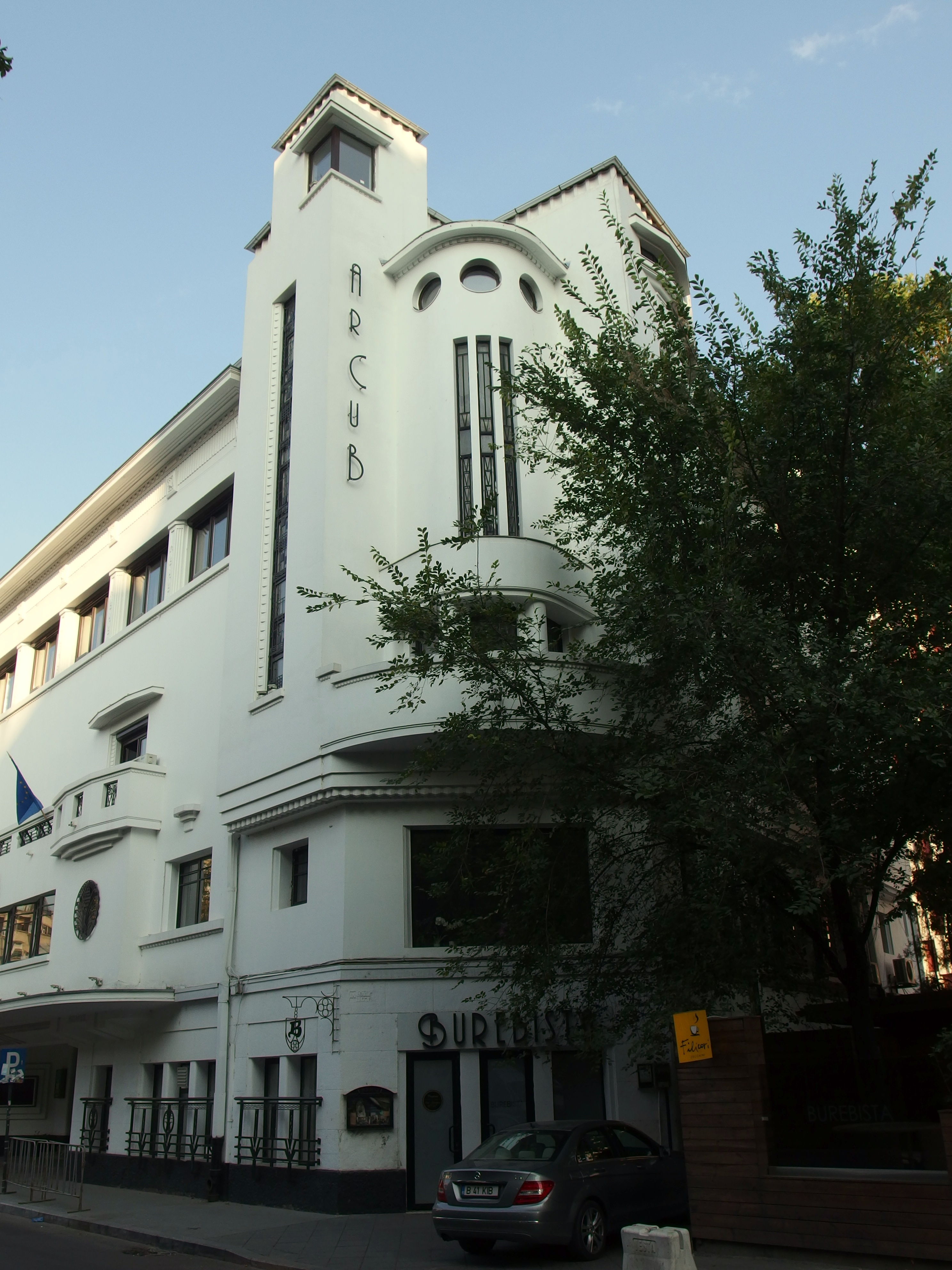 2014-08-16 in Bucharest.